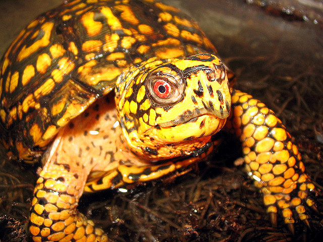 Male eastern box turtle from Maryland